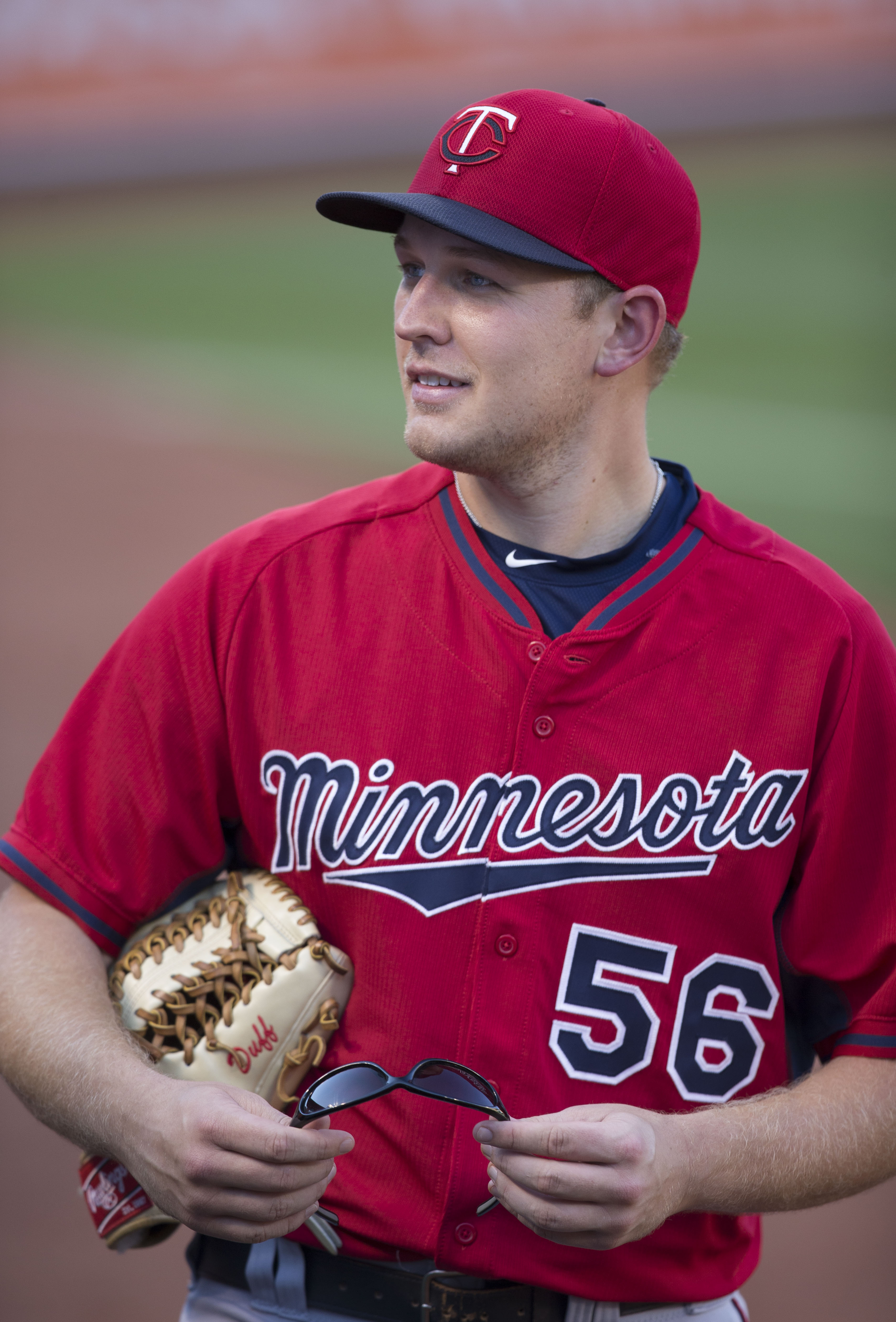 Twins at Orioles 8/22/15